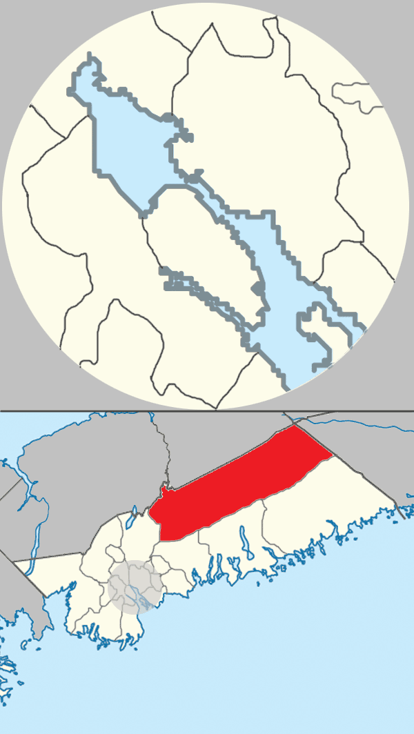 Updated map of Musquodoboit Valley/Dutch Settlement planning area in Halifax, Nova Scotia to standard colours, higher resolution, using